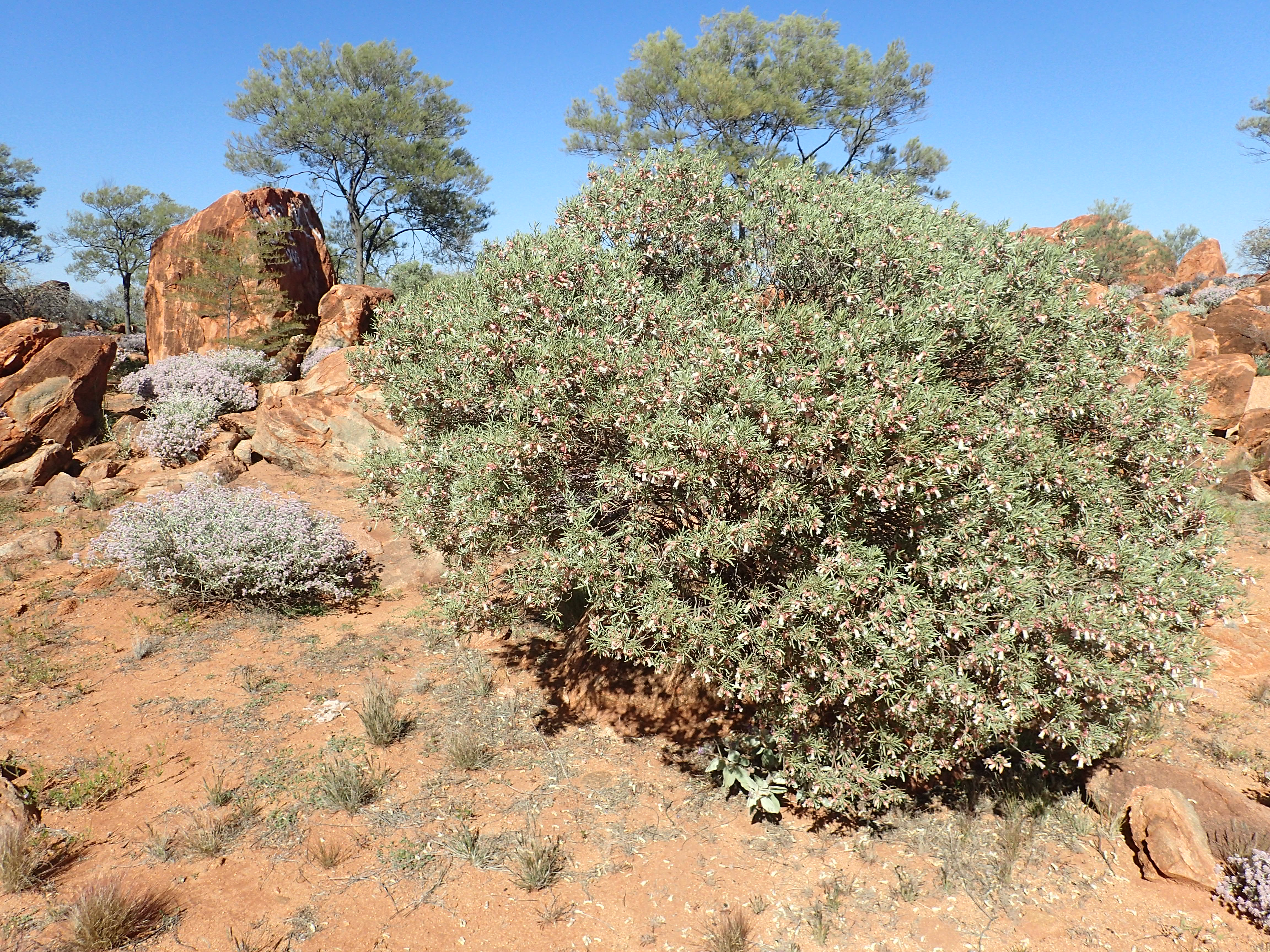 Eremophila platycalyx platycalyx growing 35 km south of Karalundi